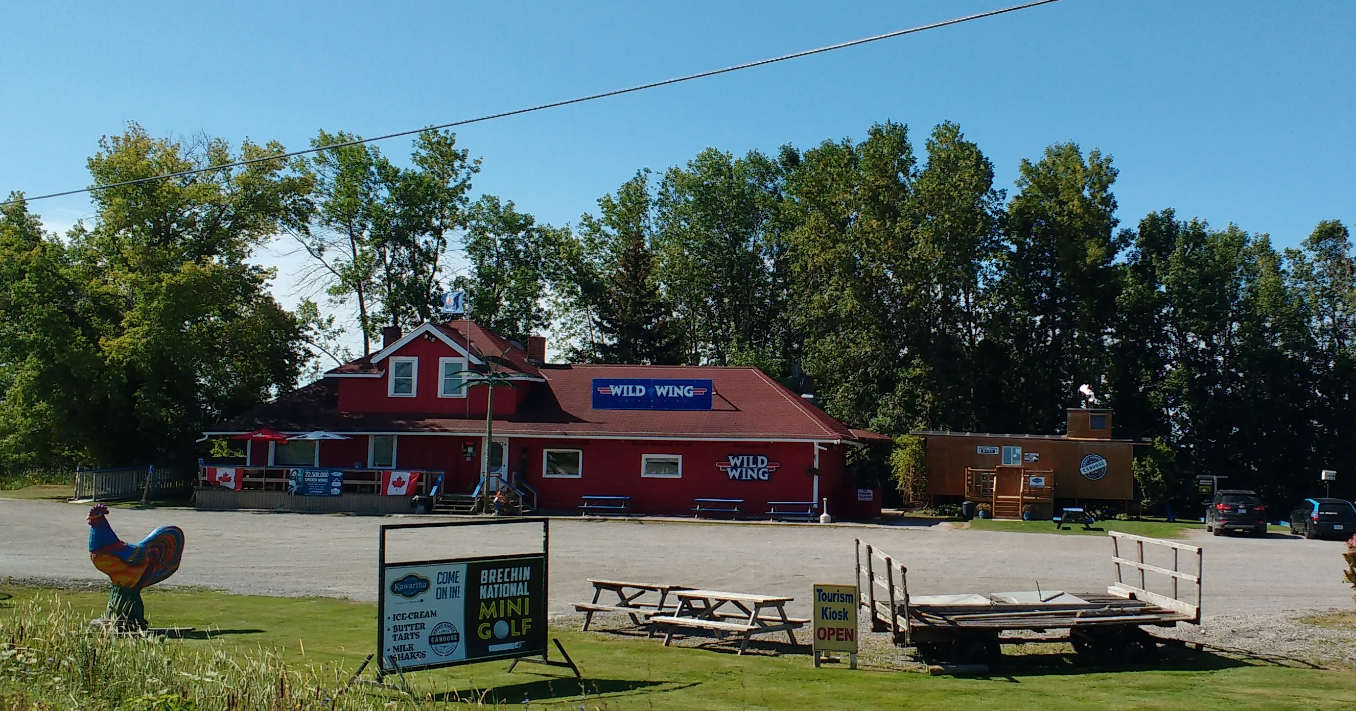 Wide view of the parking lot.